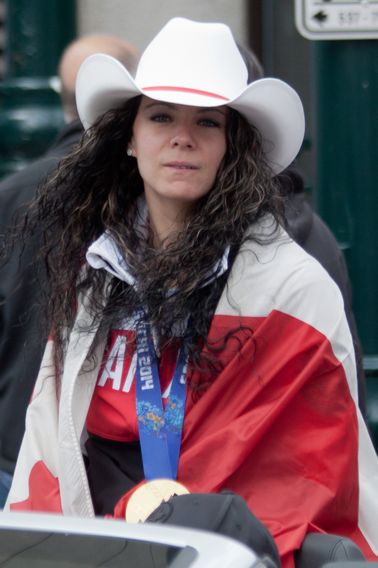 This is Olympic athlete Shannon Szabados Parade of Champions in downtown Calgary, Alberta on June 6, 2014. The image has been cropped.